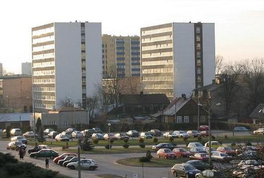 Student's house number 2 in Bialystok